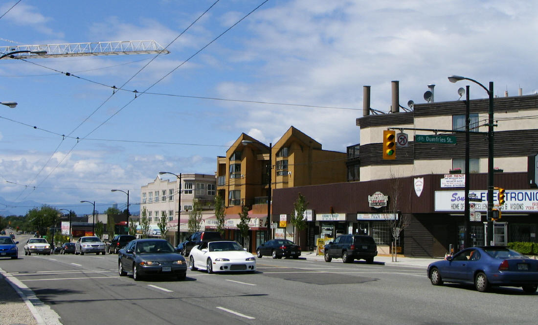 This image was created by me, Flying Penguin of Pacific Spirit Photography ( of Burnaby, British Columbia, Canada.